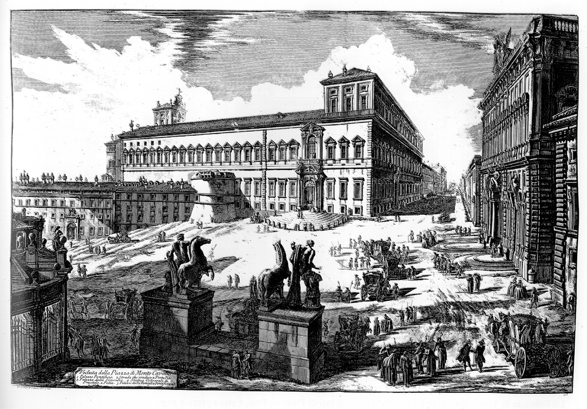 A mid-18th century etching of the Quirinal in Rome, by Giovanni Battista Piranesi. The famous Roman scuptures of Castor and Pollux (the Dioscuri) are in the foreground.